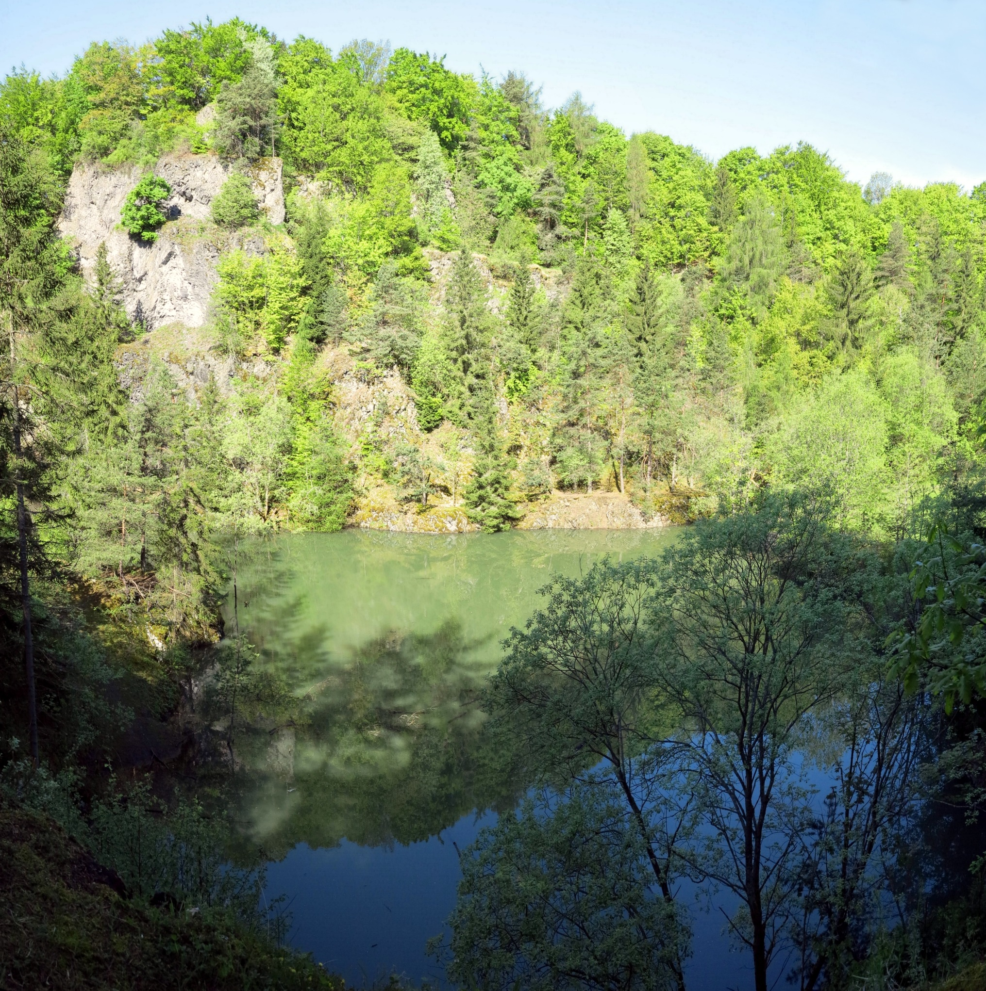 "Silbersee", Lake at Stone quarry (Basalt) at mountain Rother Kuppe